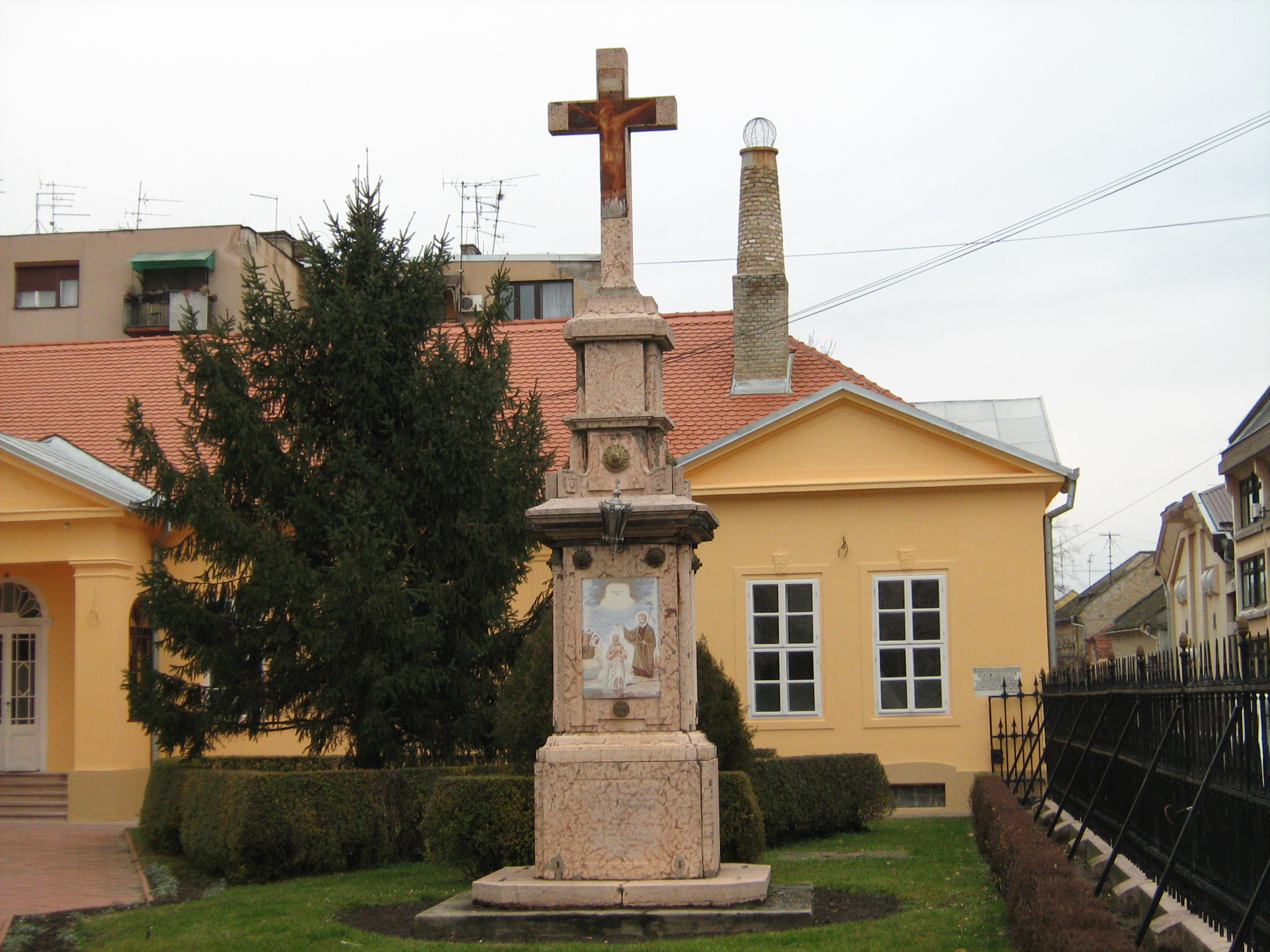 Building of formerr Sombor Norma where first civil school in Serbian language was established